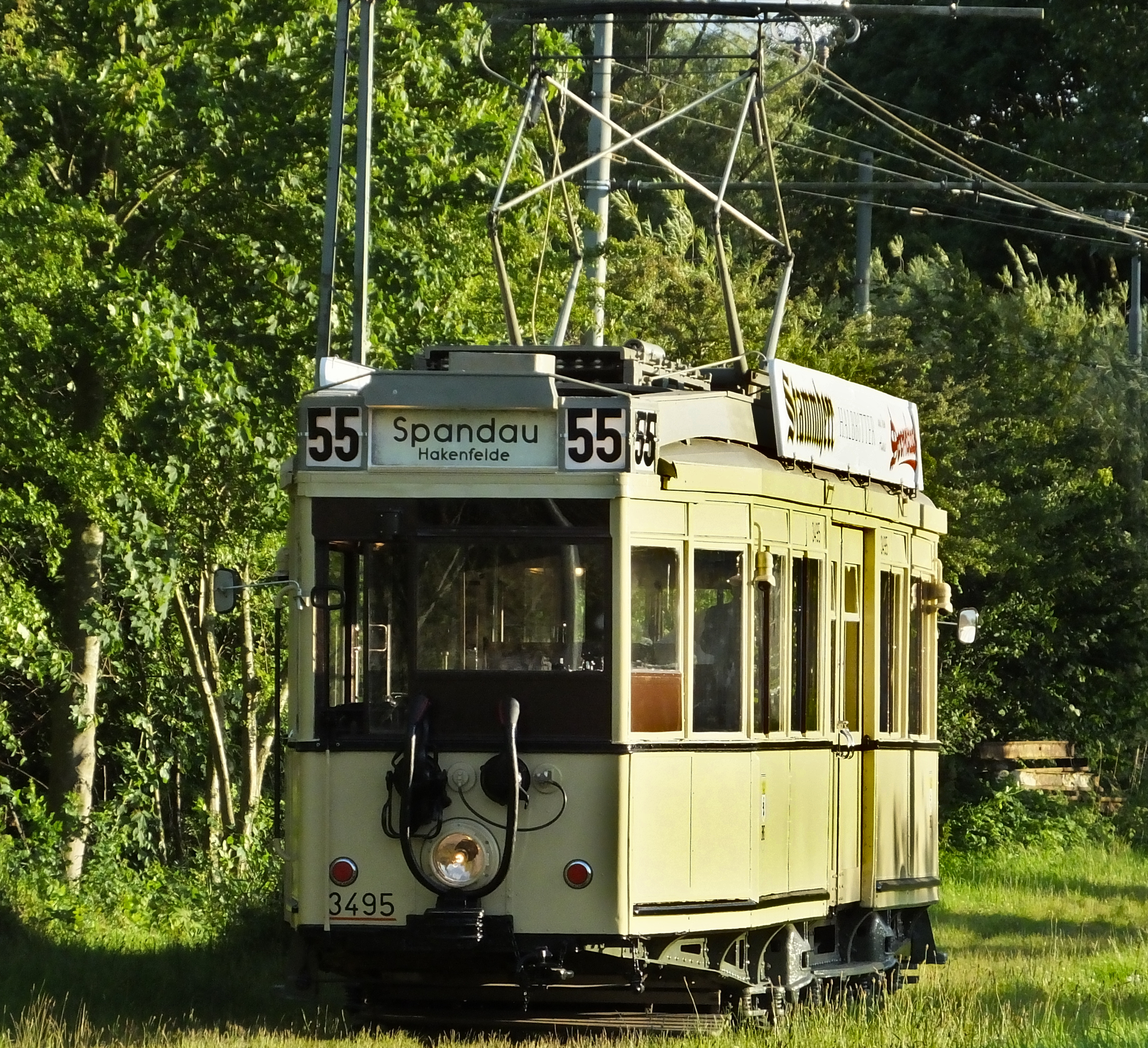 West Berlin Tram type TM36 at Museumbahnhof Schönberger Strand